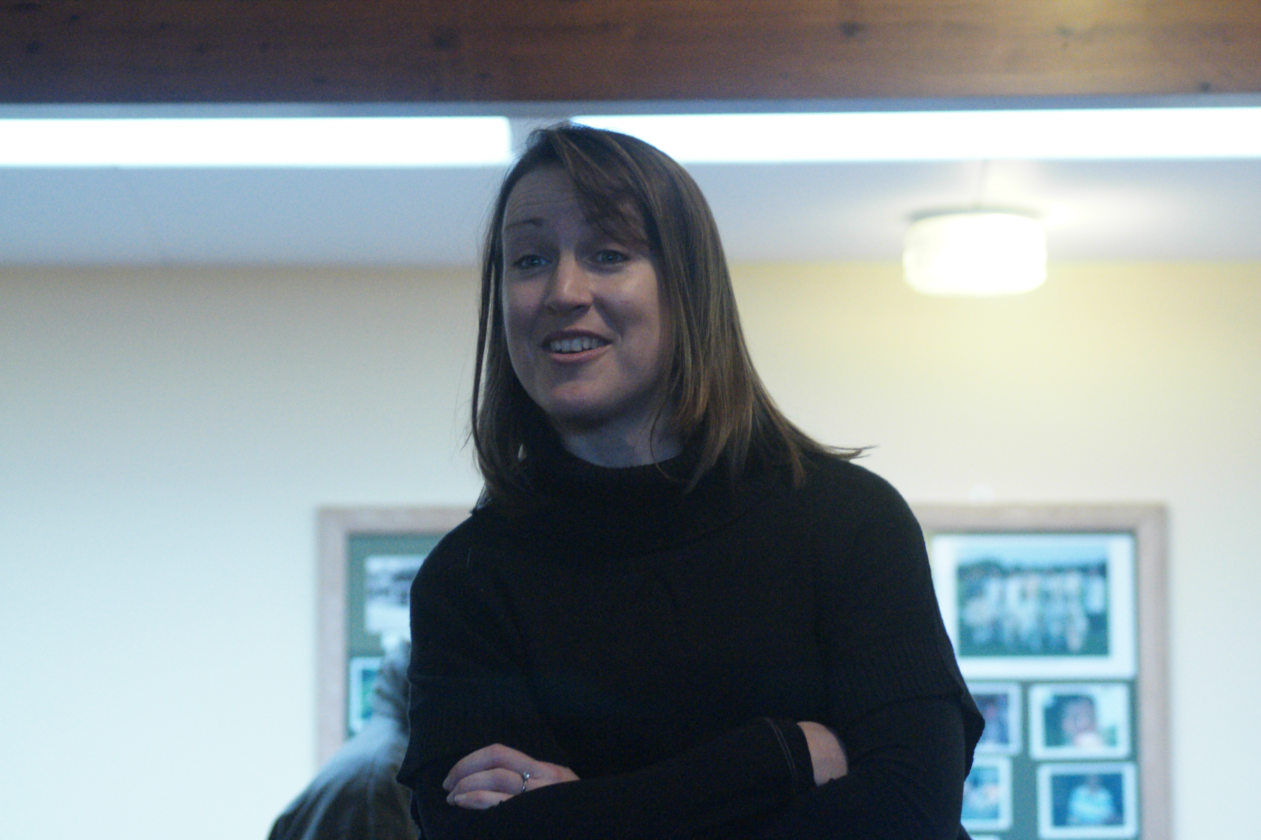 GB, England and Chelmsford - at the presentation to mark her retirement from top-level hockey.